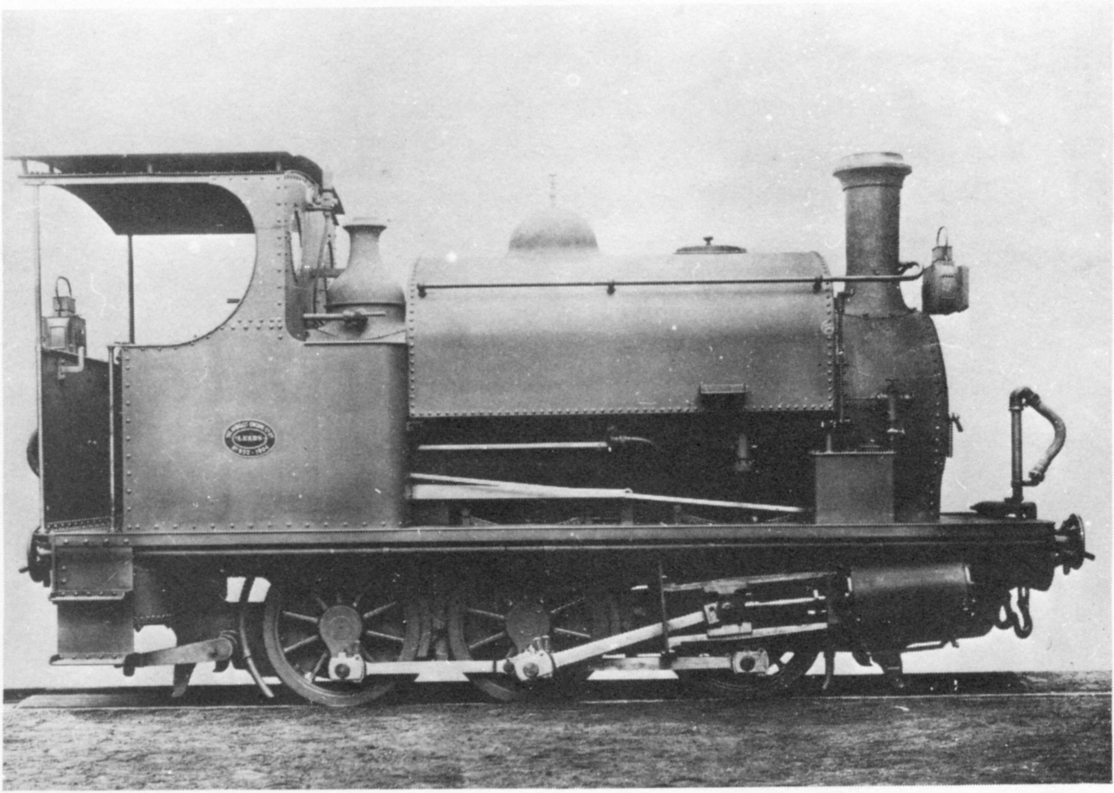 Natal Harbour 0-6-0ST Sir Albert